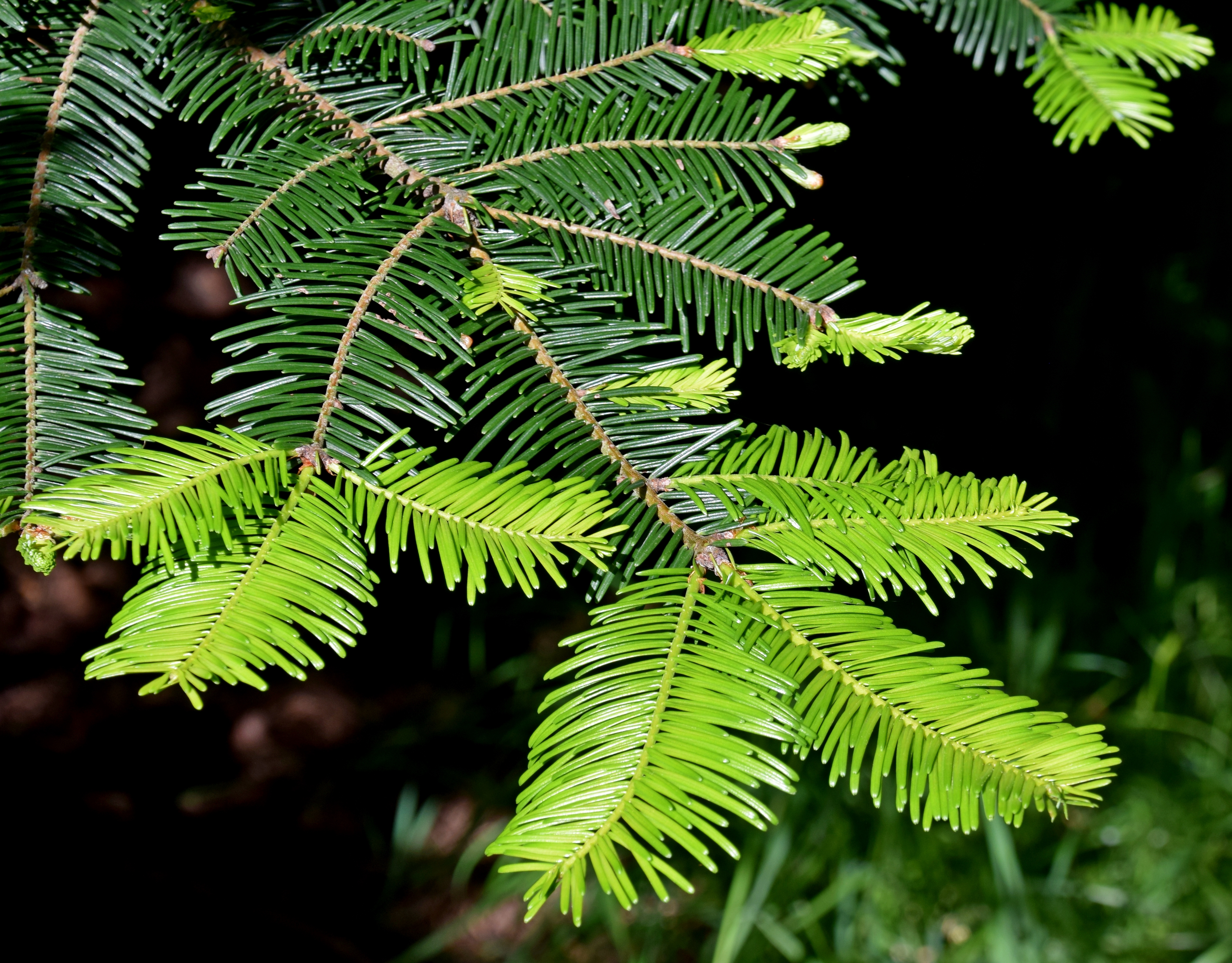 Abies grandis in Dunedin Botanic Garden, Dunedin, New Zealand